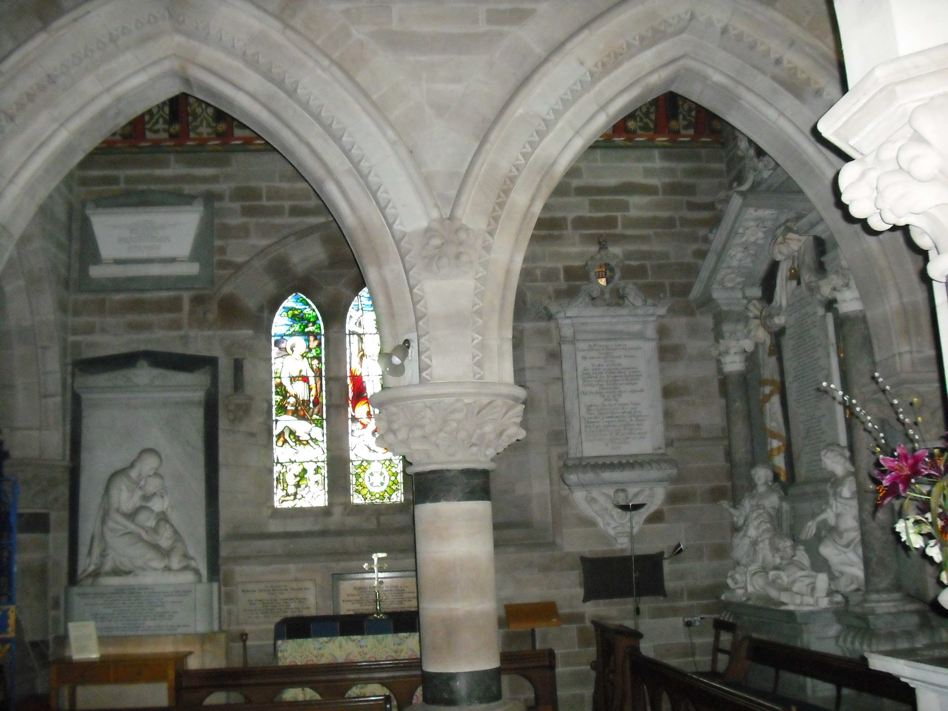 View through the Gothic revival arcade to the Vernon chapel of St Mary the Virgin parish church, Hanbury, Worcestershire